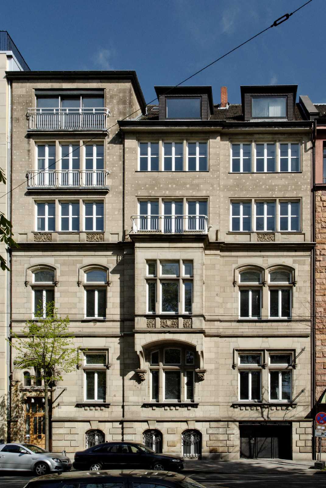 House Elisabethstraße 12 in Düsseldorf-Unterbilk, Germany